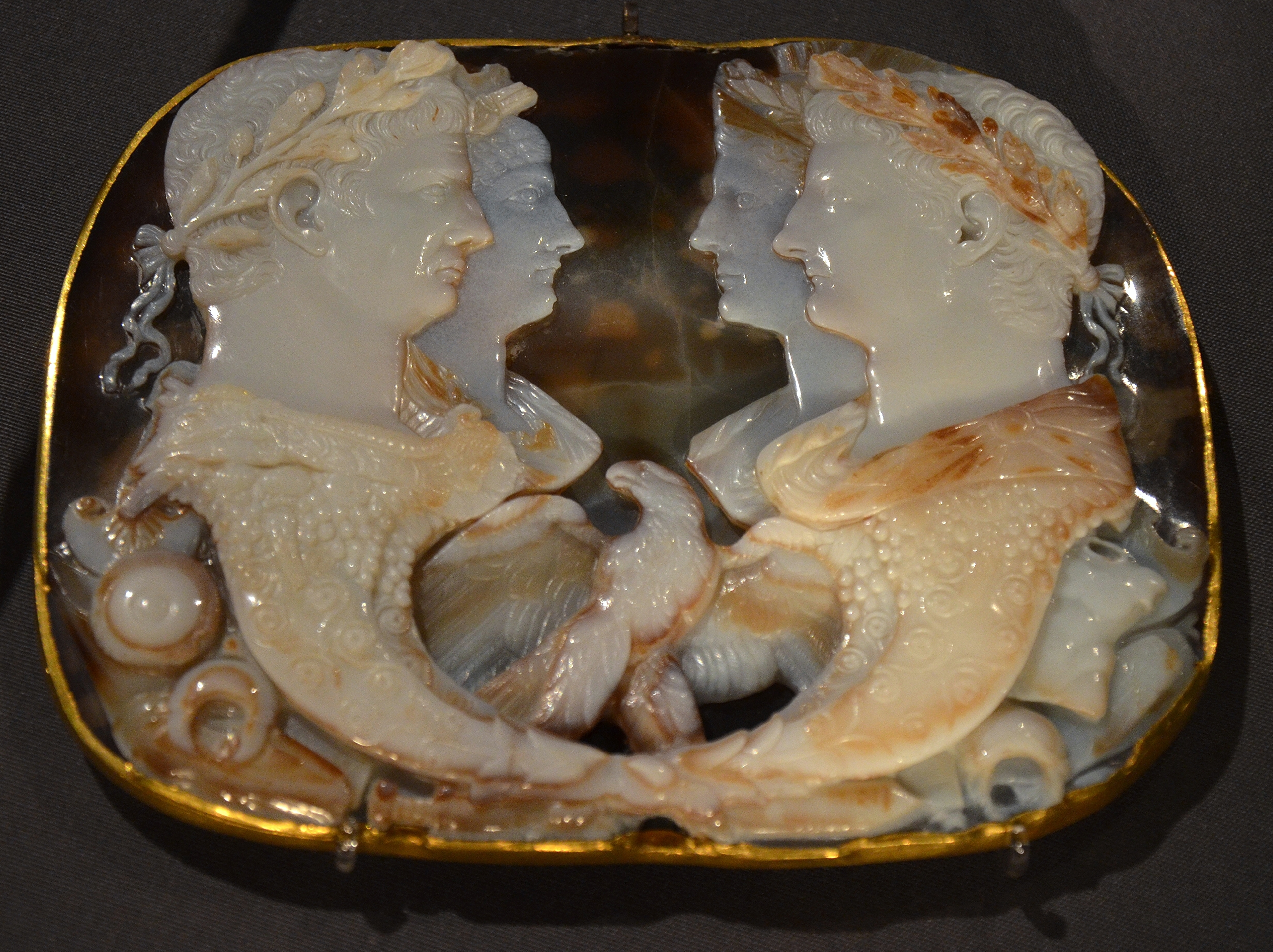 Two pairs of symmetrical busts sprout from two cornucopias: on the left the emperor Claudius (10 BC – 54 AD) and his fourth wife, Agrippina the Younger (15/16 – 59 AD). Across from them stand the busts of the parents of the bride: the brother of the emperor, Germanicus (15 BC – 19 AD), and his wife, Agrippina the Elder (14 BC – 33 AD). Claudius married for the fourth time in 49 AD. There were great expectations of Agrippina the Younger, who on the cameo is portrayed as Cybele, the goddess of fertility, and hopes that following the assassination of her predecessor, Messalina, things would take a turn for the better. Possibly this stone was an official wedding gift to the imperial couple. At this time no one suspected that the domineering, scheming character of the woman, her elevation to the rank of Augusta and the adoption of her son Nero would have disastrous consequences for the emperor and state. By marrying the great-granddaughter of Augustus, Claudius strengthened the connection between the Julian and Claudian families. The cornucopias are a sign that this marriage was to bring a fullness of blessings; the eagle of Jupiter and the weapons are symbols of the triumphant nature of the emperor and general. This is the virtuoso work of an unknown master who carved the image out offive alternating layers of dark and light stone. The final polishing reduced the base layer to as little as 2mm in some places, an unparalleled thinness that created greater translucence in the material. © Kurt Gschwantler, Alfred Bernhard-Walcher, Manuela Laubenberger, Georg Plattner, Karoline Zhuber-Okrog, Masterpieces in the Collection of Greek and Roman Antiquities. A Brief Guide to the Kunsthistorisches Museum, Vienna 2011